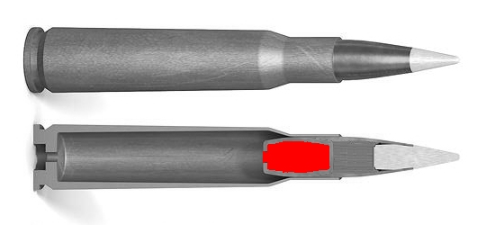 Tracer Ammunition